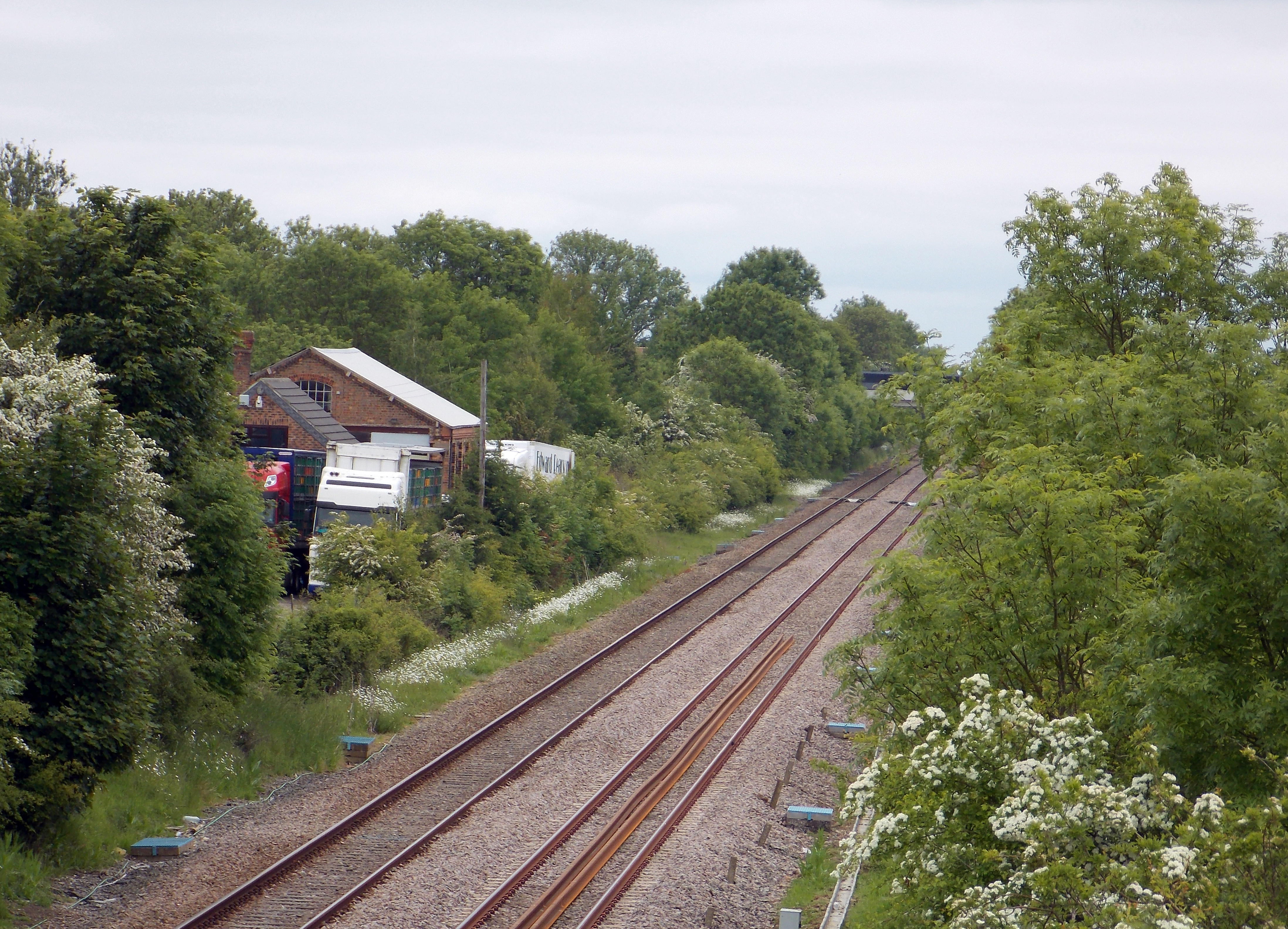 Site of the former Helpringham railway station, Lincolnshire. Largest building the former station's engine shed. Grid reference TF1316740757